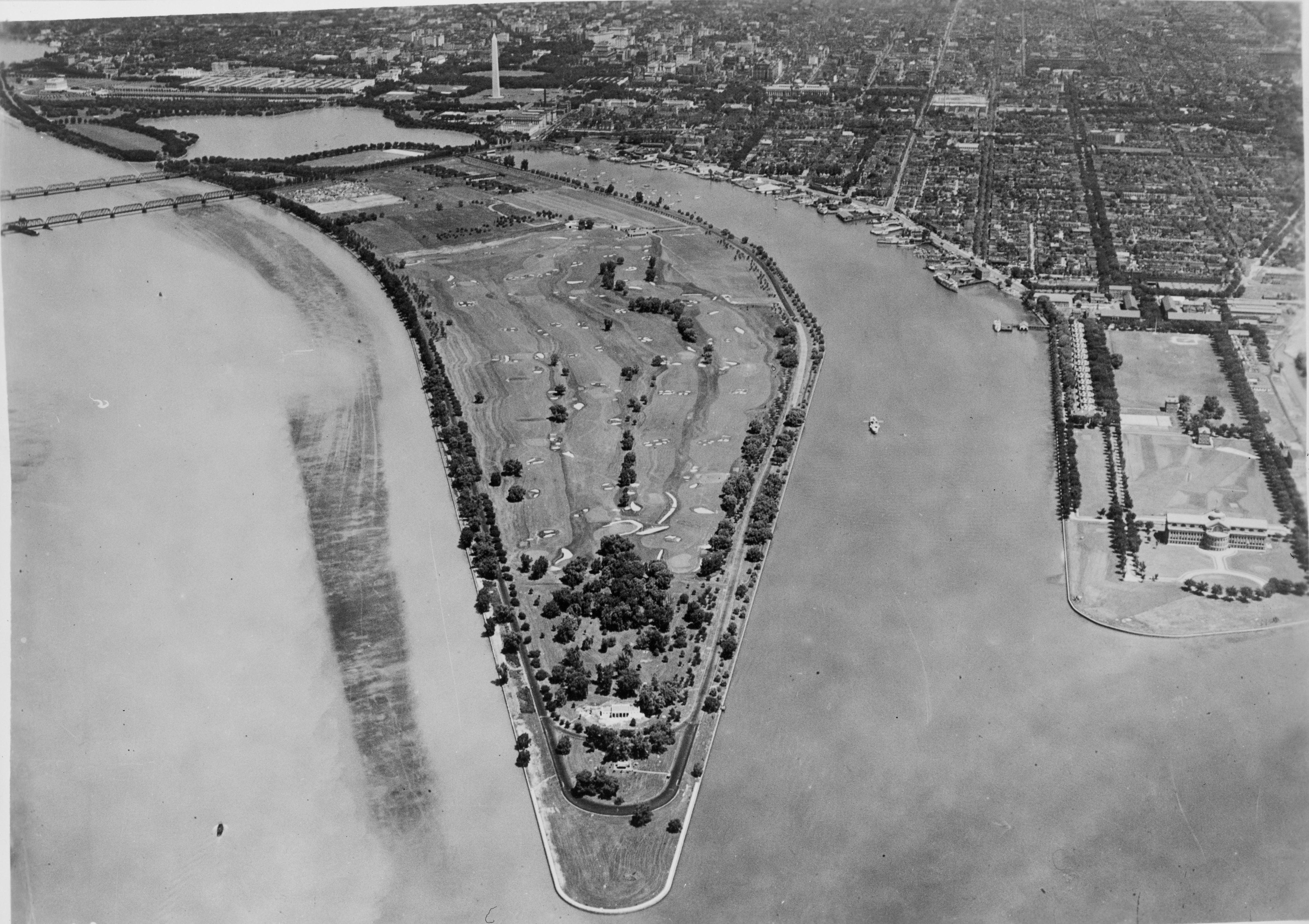 Aerial view of East Potomac Park, including the East Potomac Golf Club on Hains Point, in Washington, D.C., looking north towards the National Mall. The Jefferson Memorial has not yet been built.